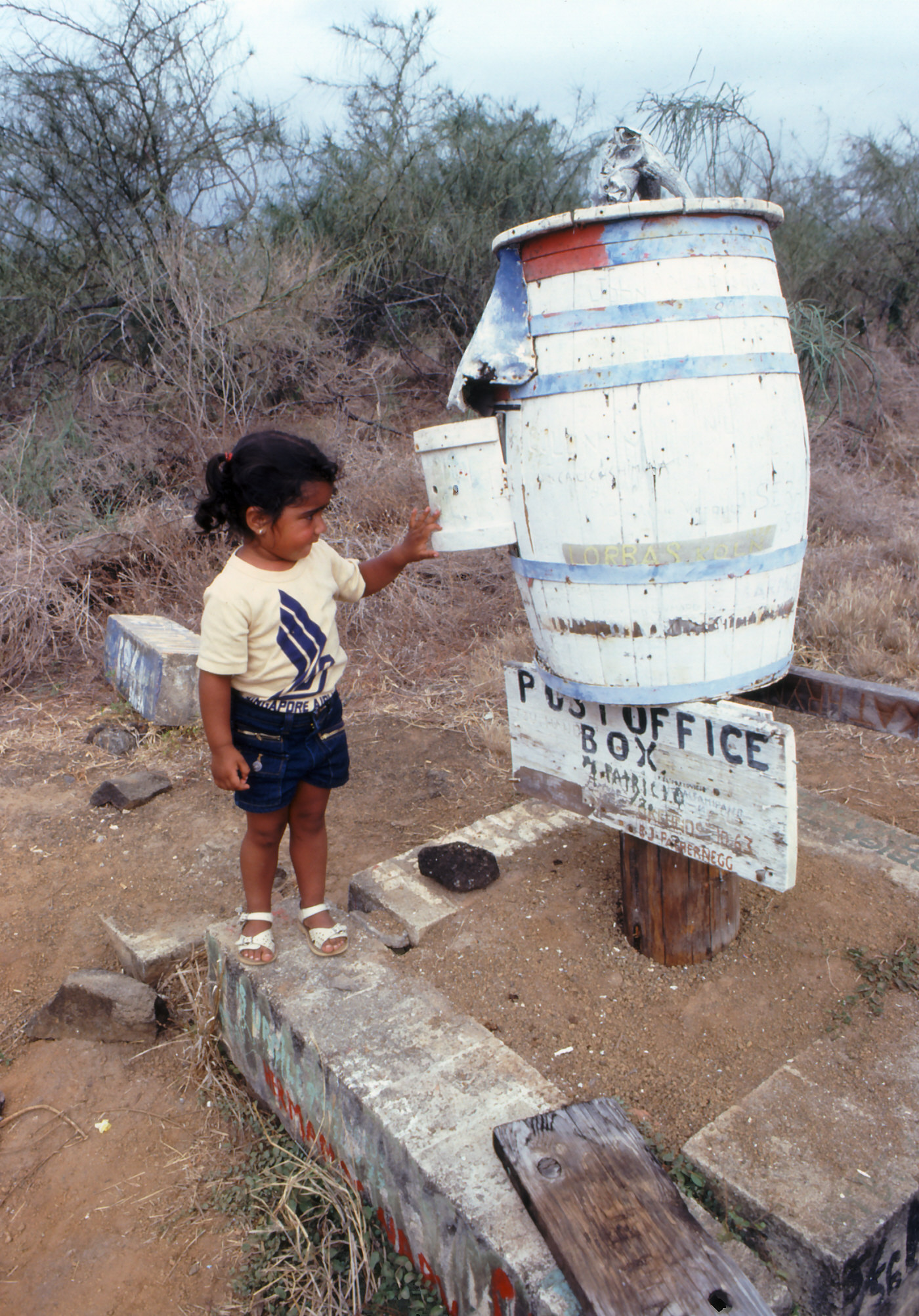 Mailbox, Galapagos Islands, 1983.